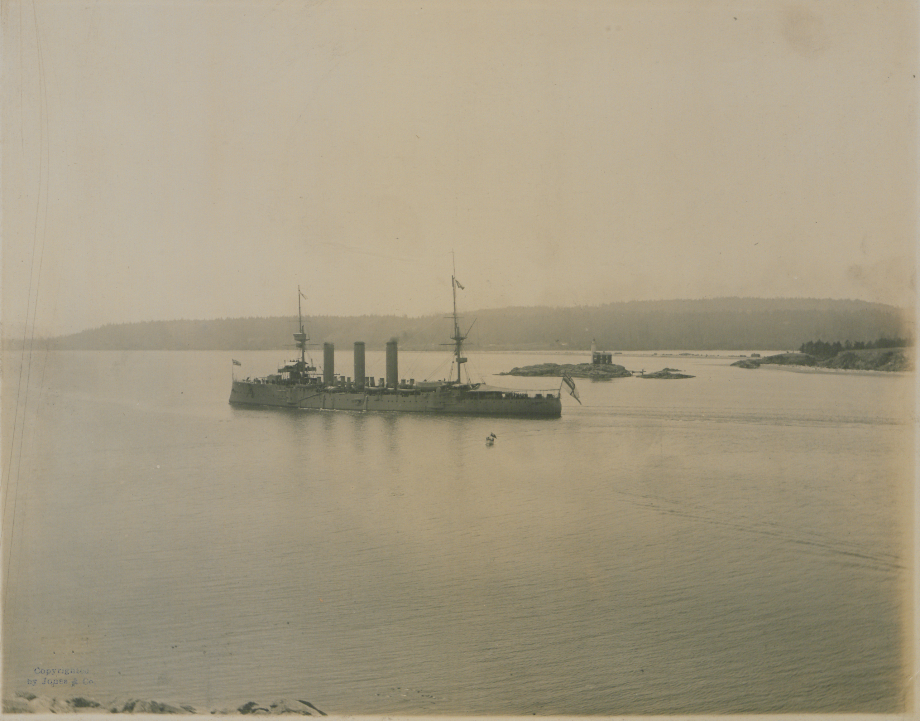 HMS "Monmouth" leaving Esquimalt Harbor with Prince Fushimi.